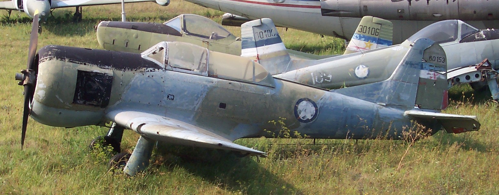 Image shows Yugoslav airplane type 522, in front of Museum of Yugoslav Aviation, Belgrade, Serbia. Airplane was used for pilot training in 1950's and 1960's.